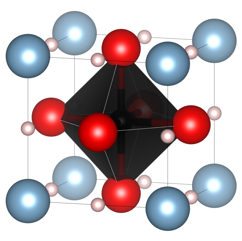 kappa-carbide (perovskite structure) with Fe (red), Al (metallic) C (black) and empty sites that can be occupied by H-atoms (beige)